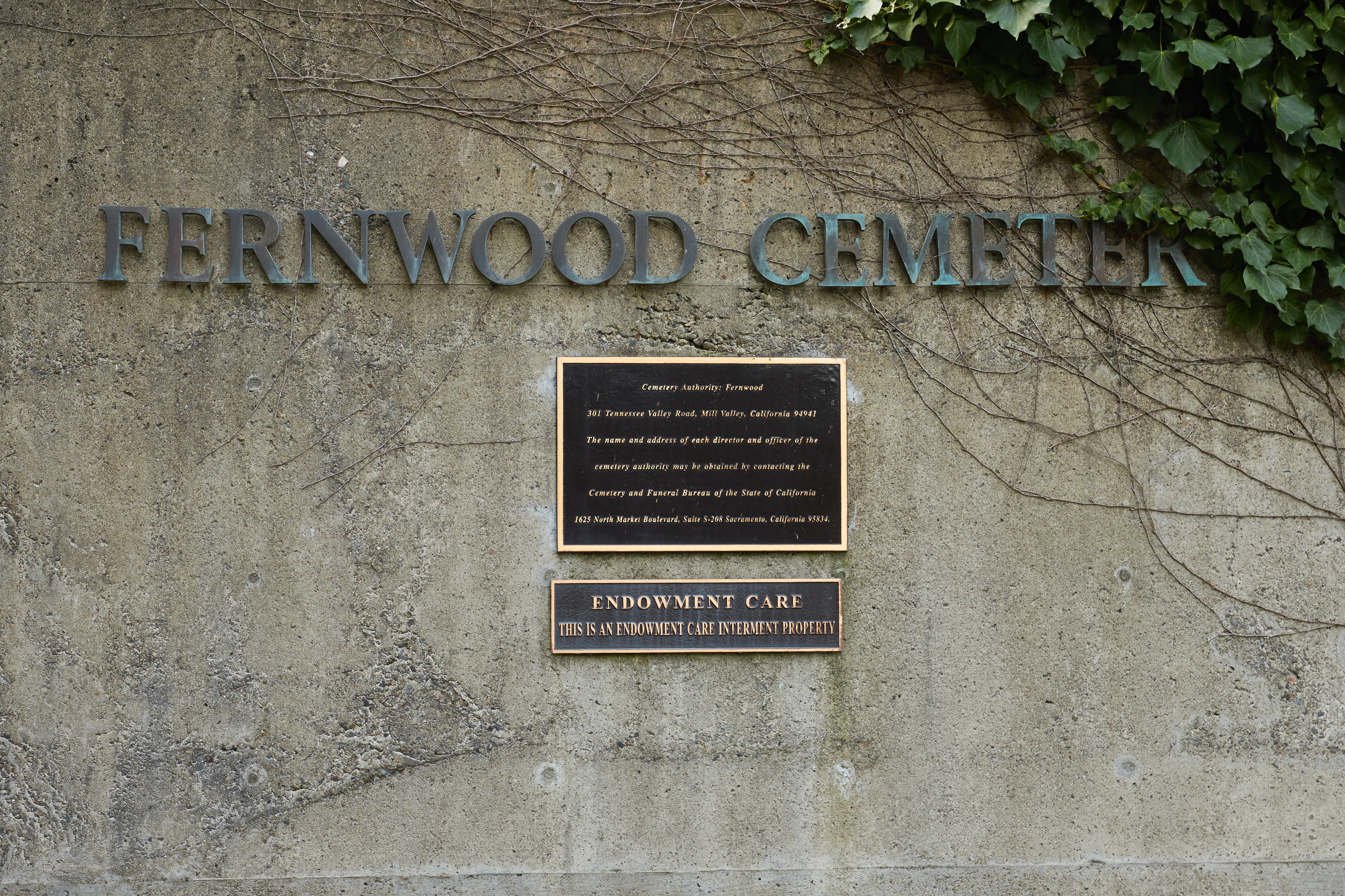 Fernwood Cemetery in Mill Valley, California.